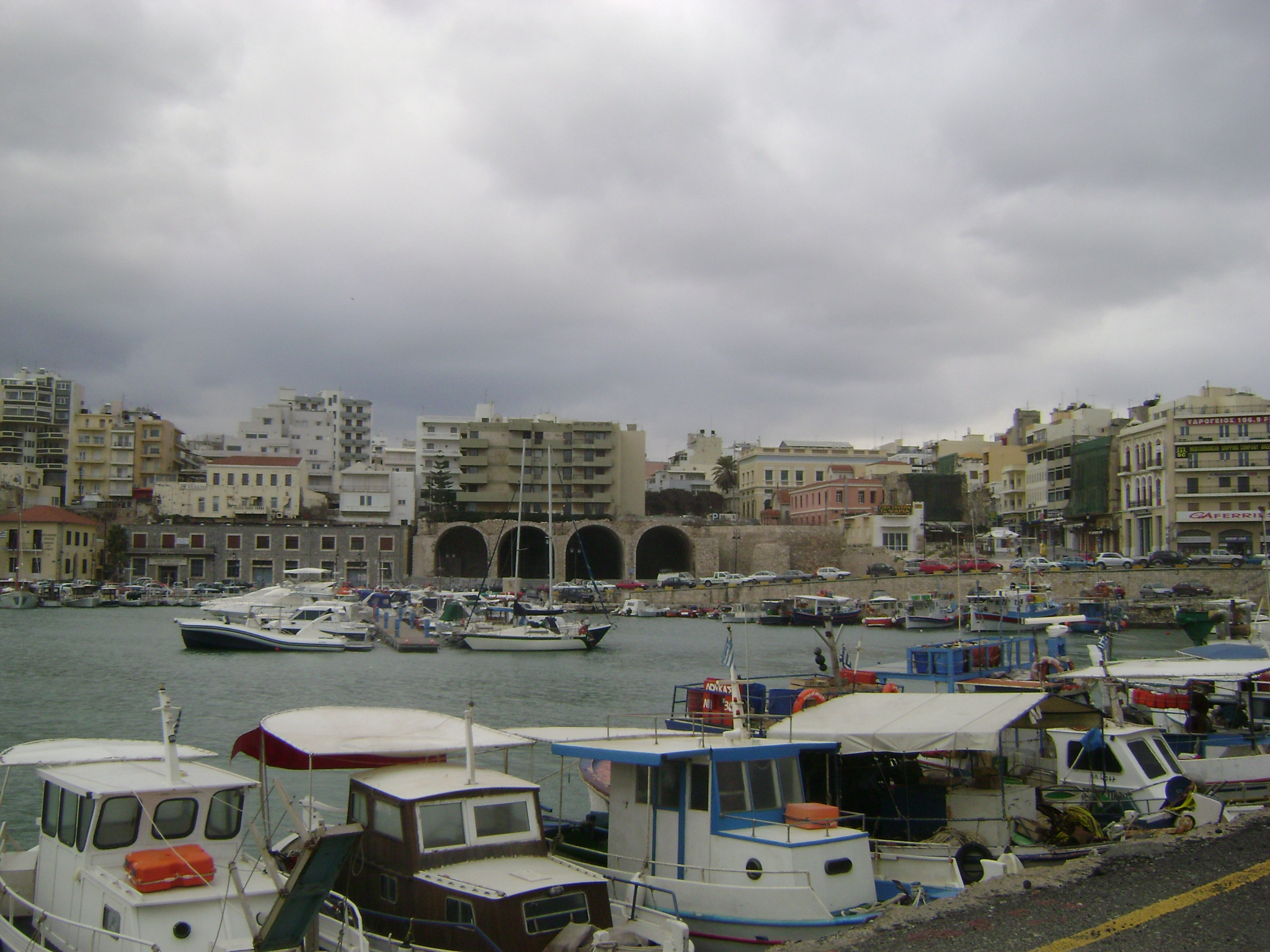 Town of Heraclion